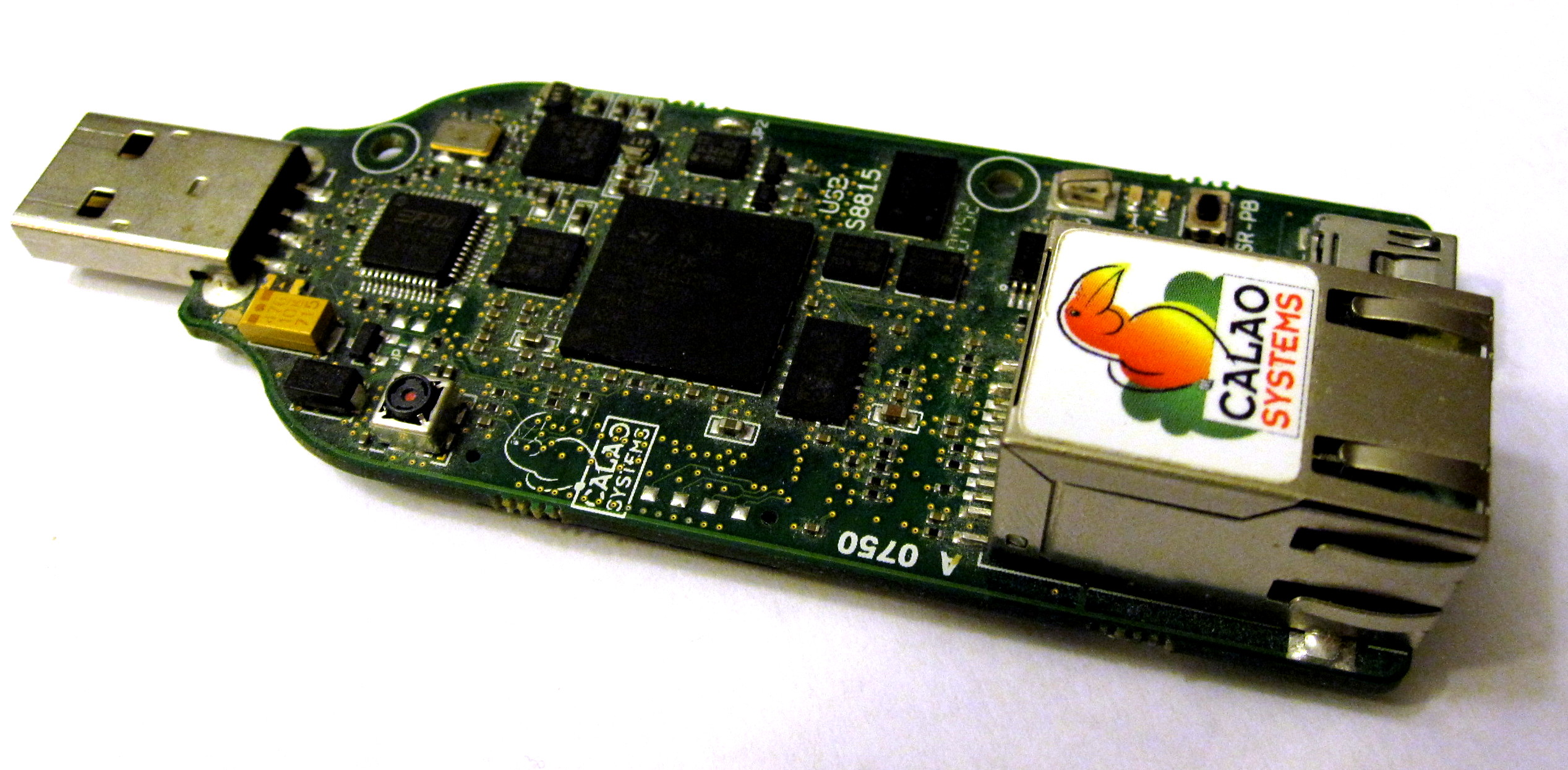 The S8815 USB dongle was a single board computer sold by ST Microelectronics using the Nomadik 8815 chipset.